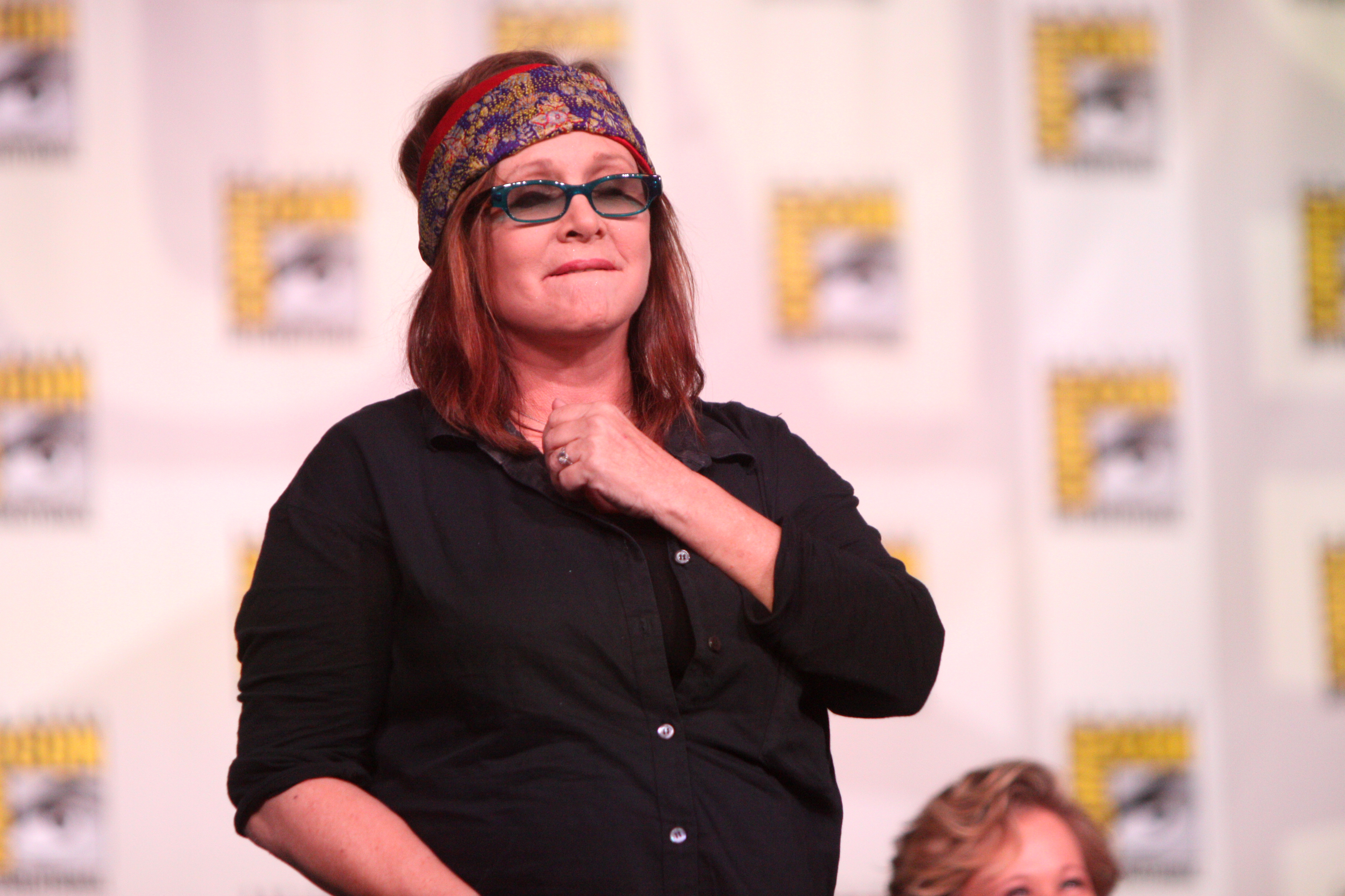 Carrie Fisher speaking at the 2012 San Diego Comic-Con International in San Diego, California.